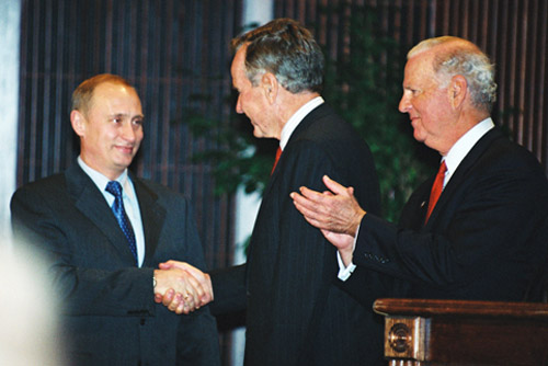 HOUSTON, TEXAS. President Vladimir Putin meeting with George Bush Sr. at Rice University.